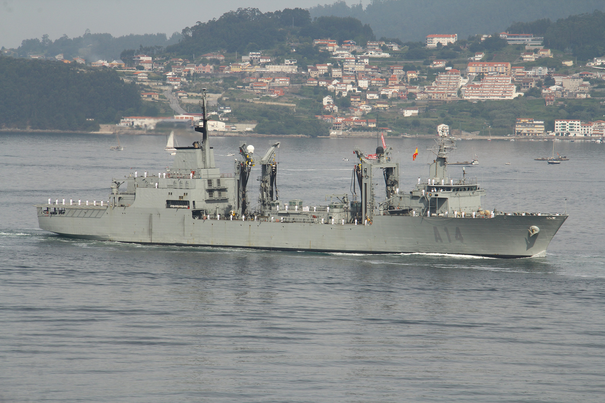 Naval review of the Spanish Navy held on June 2, 2017 in the Pontevedra Estuary on the occasion of the 300th anniversary of the Royal Company of Guardiamarinas, origin of the current Naval Military Academy of Marín. In the picture, BAC Patiño A-14.